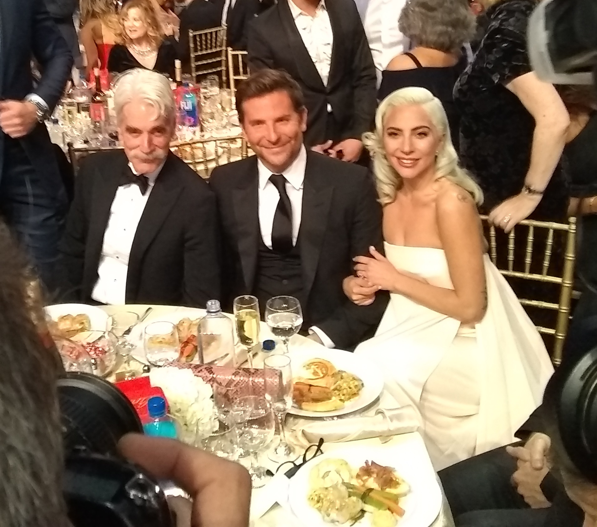 Actor Sam Elliott, Director/Actor Bradley Cooper, and Actor/Singer Lada Gaga at the “A Star is Born” table at the 24th annual Critics’ Choice Awards in Santa Monica, California on January 13th, 2019.